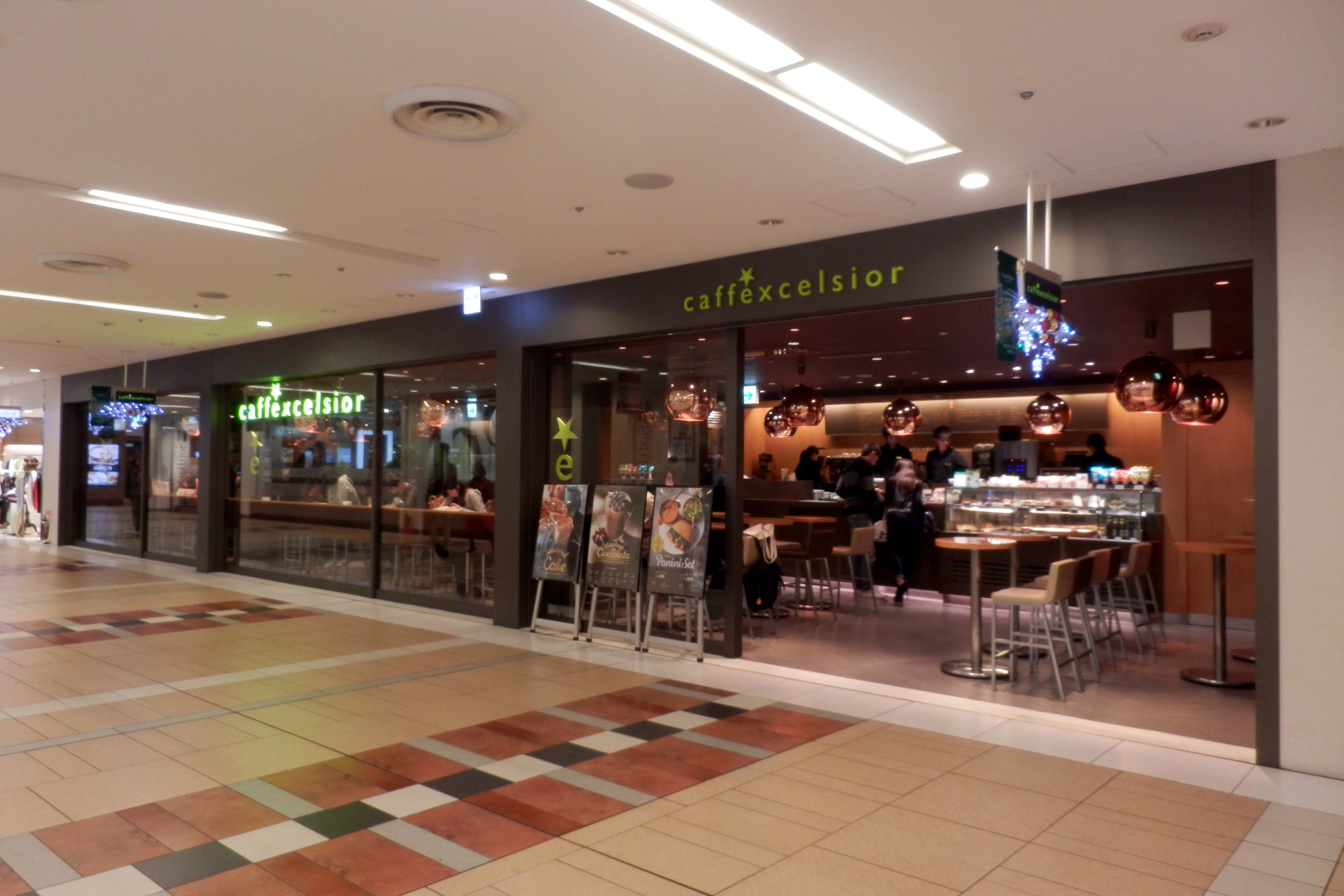 Caffé Excelsior (Coffeehouse in Tokyo, Japan)